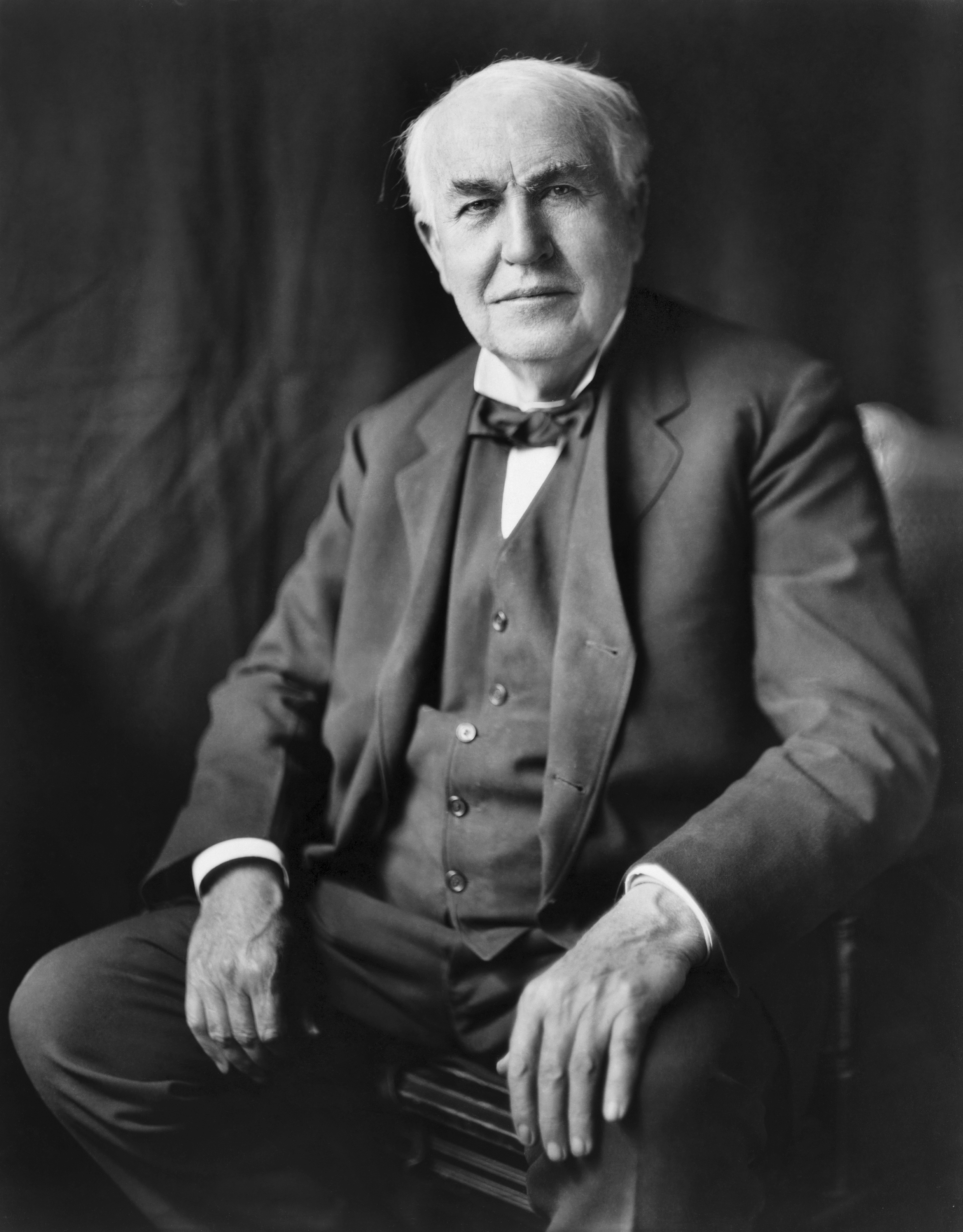 "Thomas Alva Edison, three-quarter length portrait, seated, facing front". Photographic print.